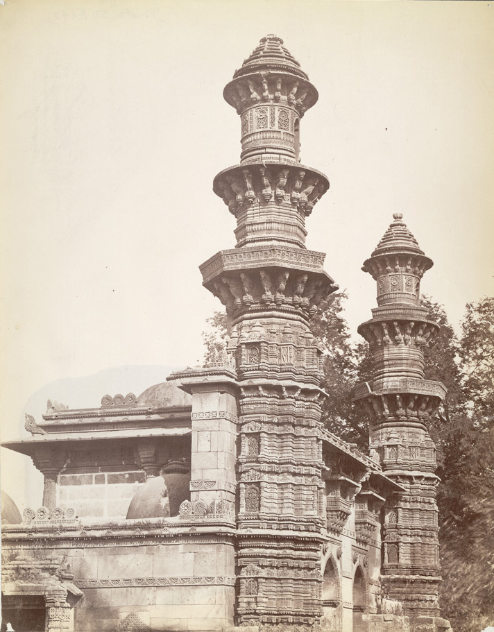 This signed print shows the mosque of Muhafiz Khan in the old city of Ahmadabad in Gujarat. Ahmadabad was founded as the capital of the Gujarati sultanate in 1411 by sultan Ahmad Shah I. This mosque is located in the northern sector of the city. It was built by Jamail-u'd-din, minister to the sultan Mahmud Shah Begarha and governor of the city from 1471. The mosque was constructed before this appointment in 1465. The view shows the two minars of the mosque, elaborately carved in typical regional style, and the adjoined prayer sanctuary from the south-east. The mosque has three arched openings in the sanctuary facade. The interior is divided into five bays and three aisles by carved pillars. There are five prayer niches indicating the direction of Mecca which create corresponding projections in the external back wall.